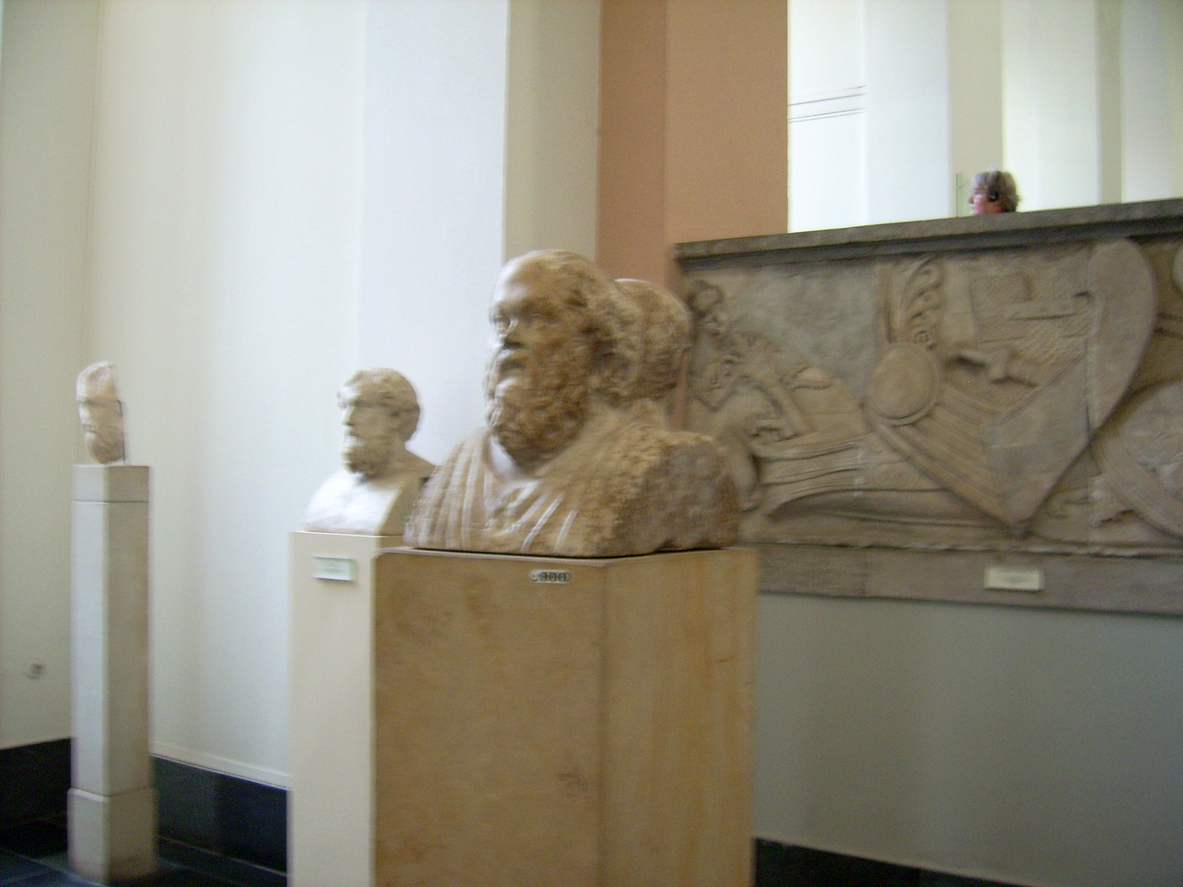 Berlin, Pergamonmuseum. An Ancient Roman double-face herm of philosophers Lucius Annaeus Seneca and Socrates.